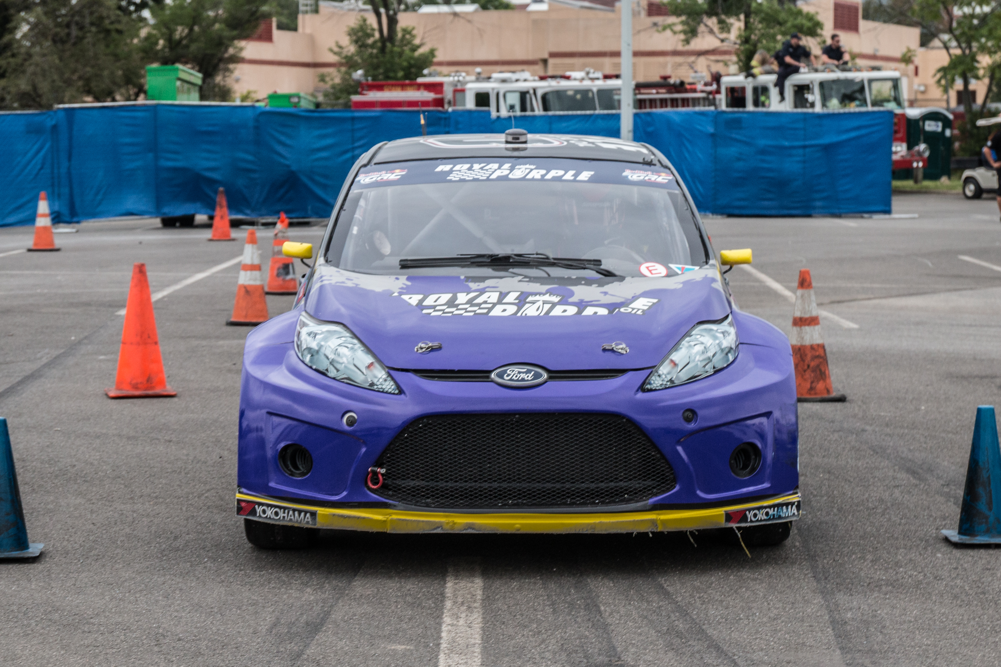 Steve Arpin in his Ford Fiesta MK6 Supercar. Round 3 of the 2014 Global RallyCross Championship at RFK Stadium, Washington D.C.